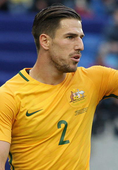 Cameroon vs Australia (1-1). FIFA Confederations Cup 2017